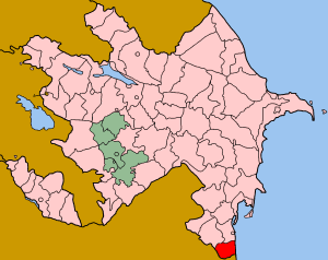 Map of Azerbaijan showing Astara rayon.